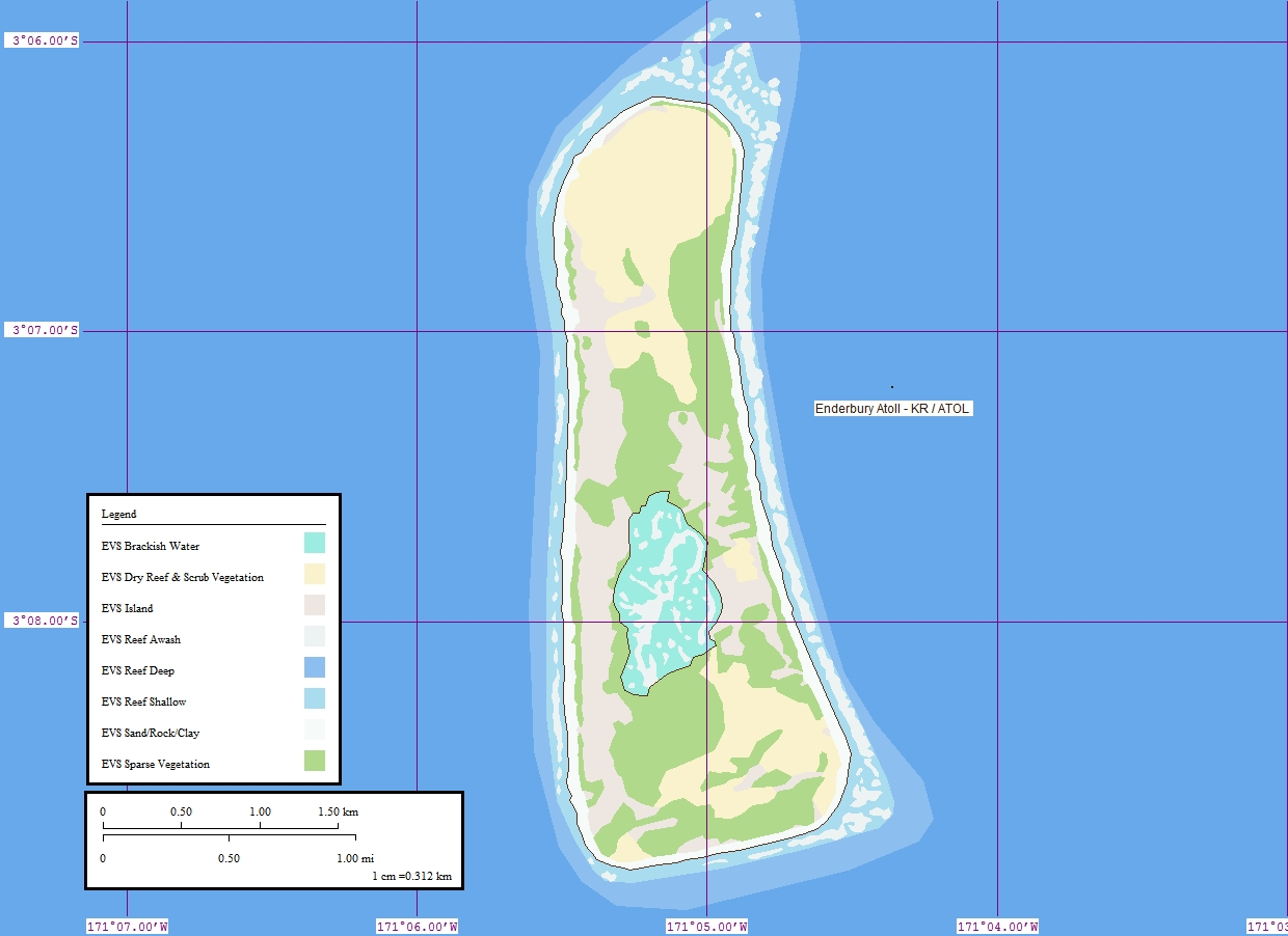 Map of Enderbury Island, Phoenix Islands, Kiribati